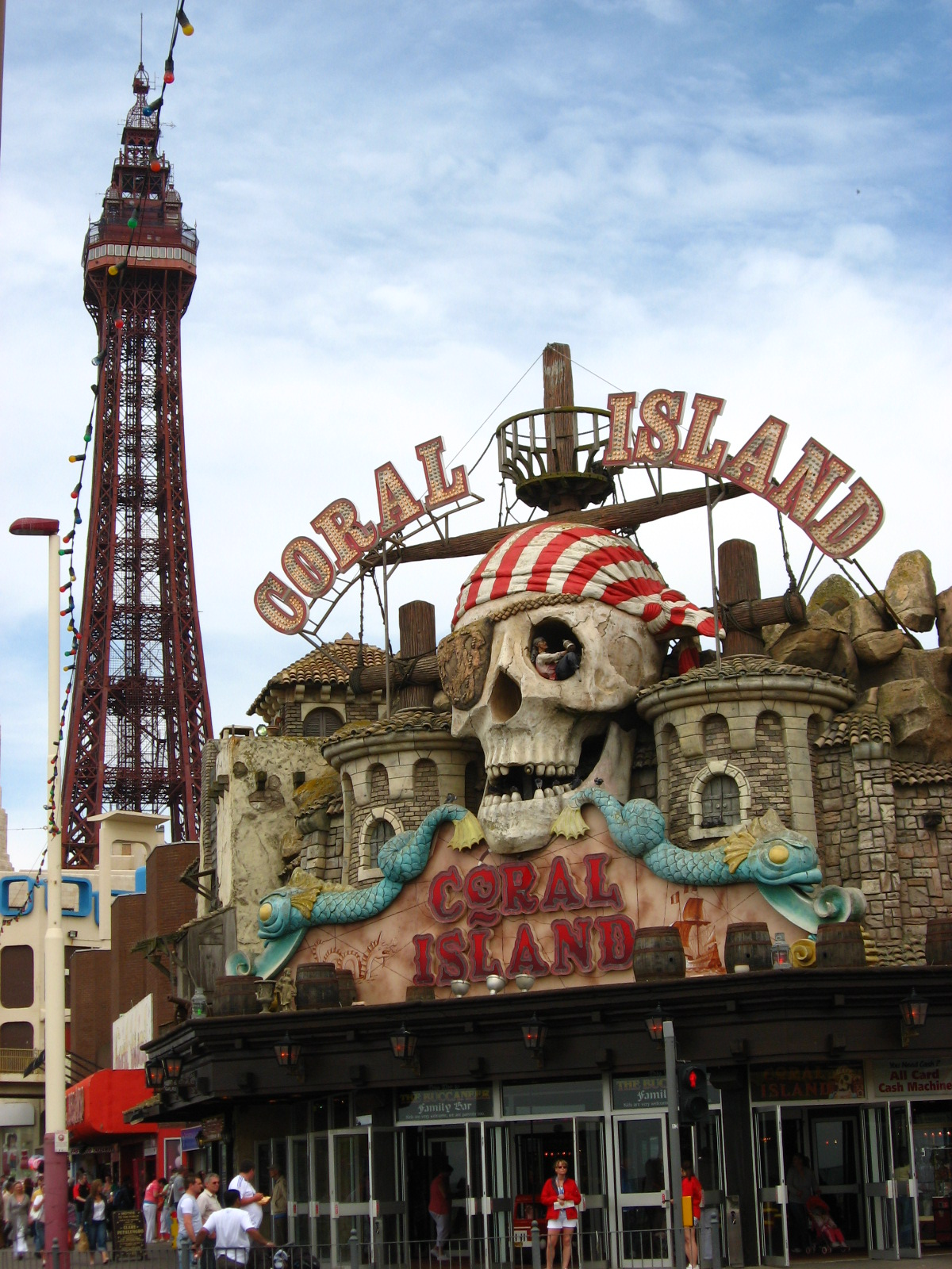 blackpool